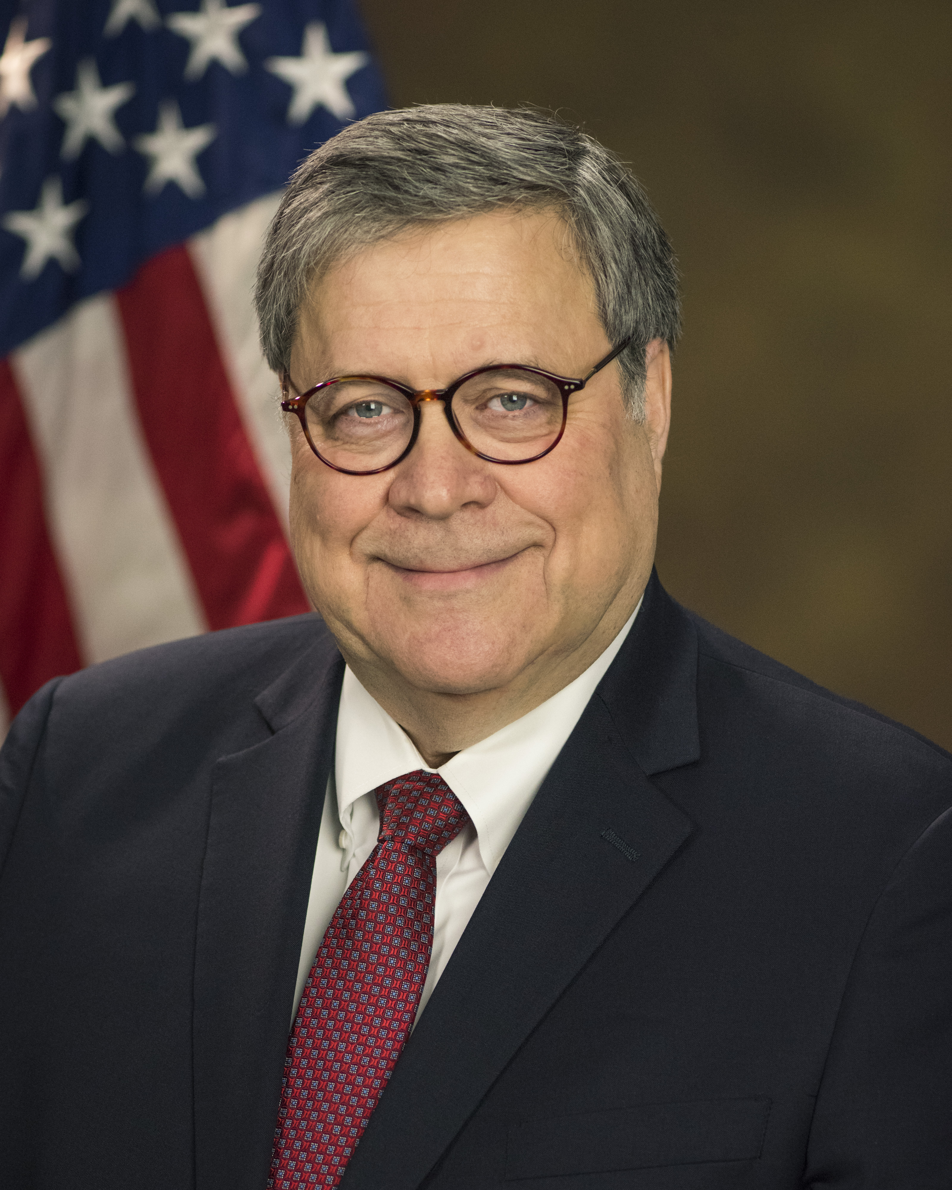 William Barr Attorney General William Pelham Barr was sworn in as Attorney General on February 14, 2019.